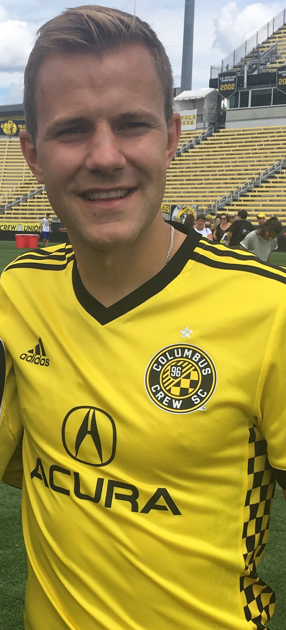 Picture of Nicolai Naess at a Columbus Crew SC Meet the Team event in 2017.